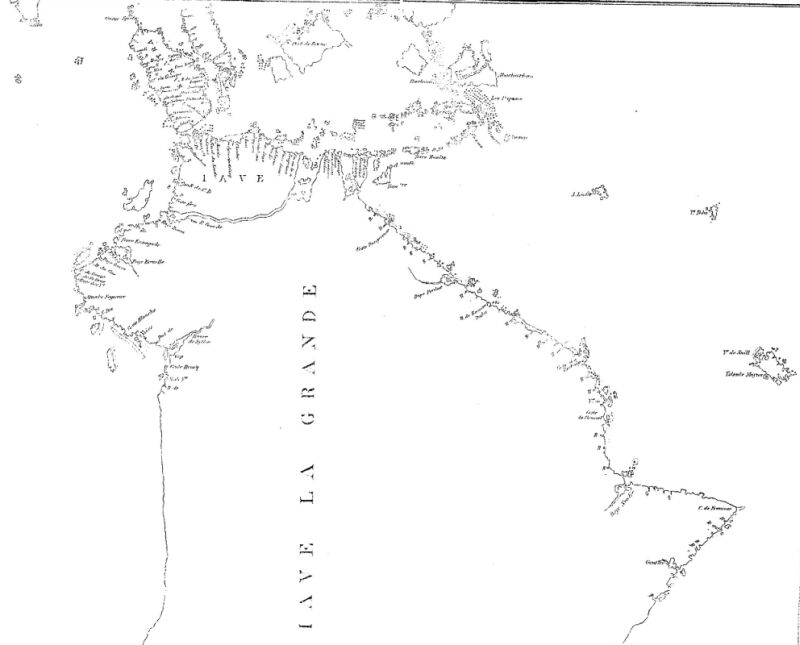 A map of "Java La Grande", which proponents of the theory of Portuguese discovery of Australia hold to be Australia.